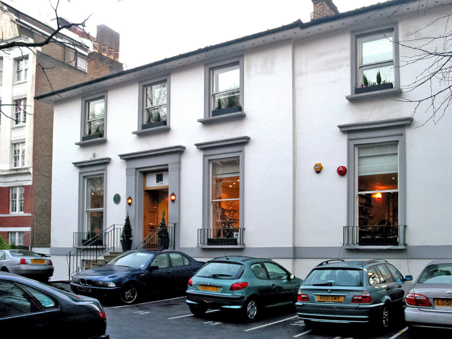 "Picture of the Abbey Road studios. Taken by portum for wikipedia." from English Wikipedia.